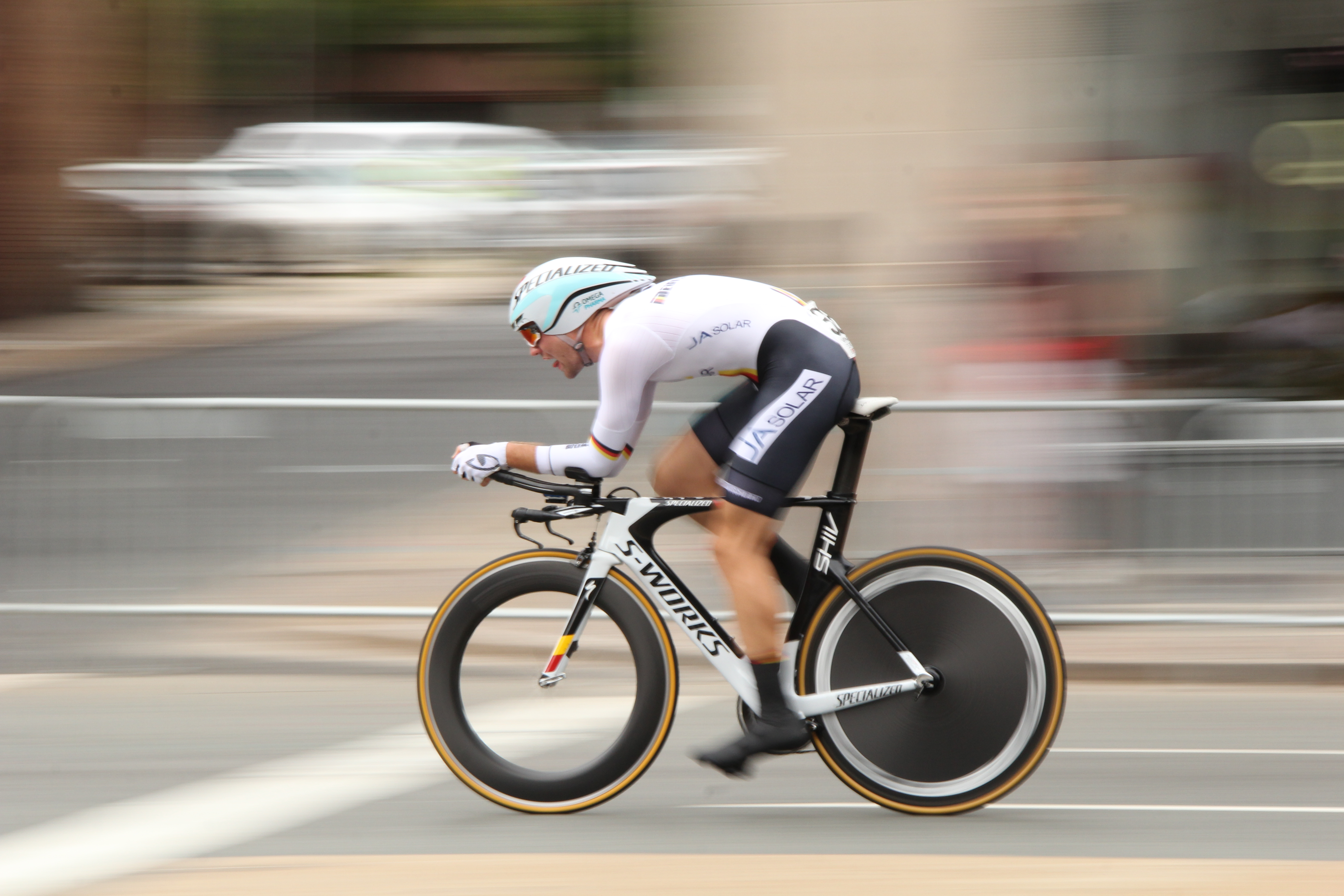 The world has come to Richmond. Welcome! Bienvenidos! Willkommen! 2015 UCI Road World Championships, in Richmond, United States